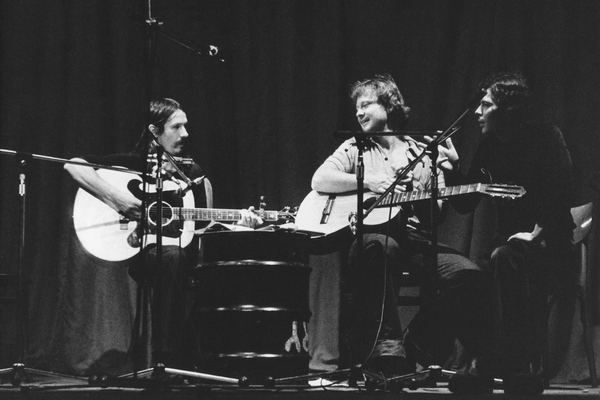 Čundrgrund, czech folk-rock group, Baráčnická rychta (Tržiště 255/23?), Prague, 6. september 1977, from left: Petr Kalandra, Vladimír Merta, Vladimír Mišík